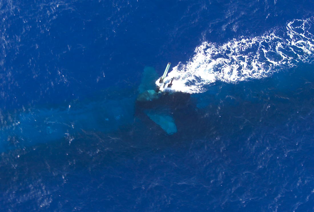 Taken during an Anti-submarine warfare (ASW) exercise for RIMPAC 2004.